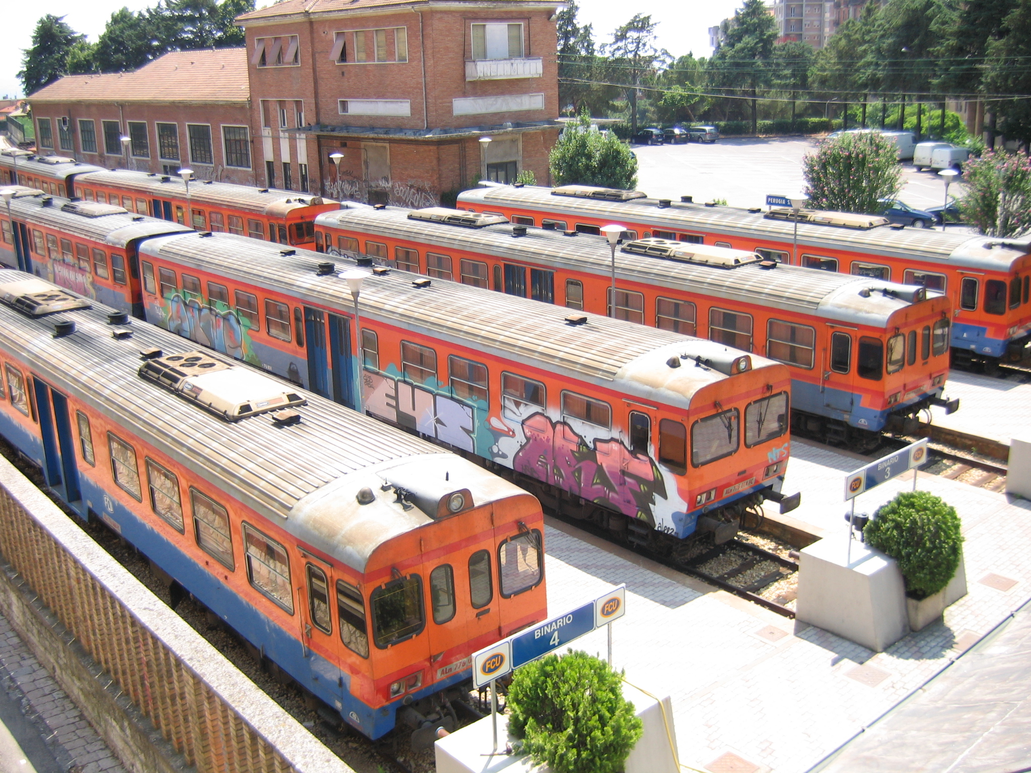 Several ALn 776 of FCU railway in Perugia Sant’Anna, Italy